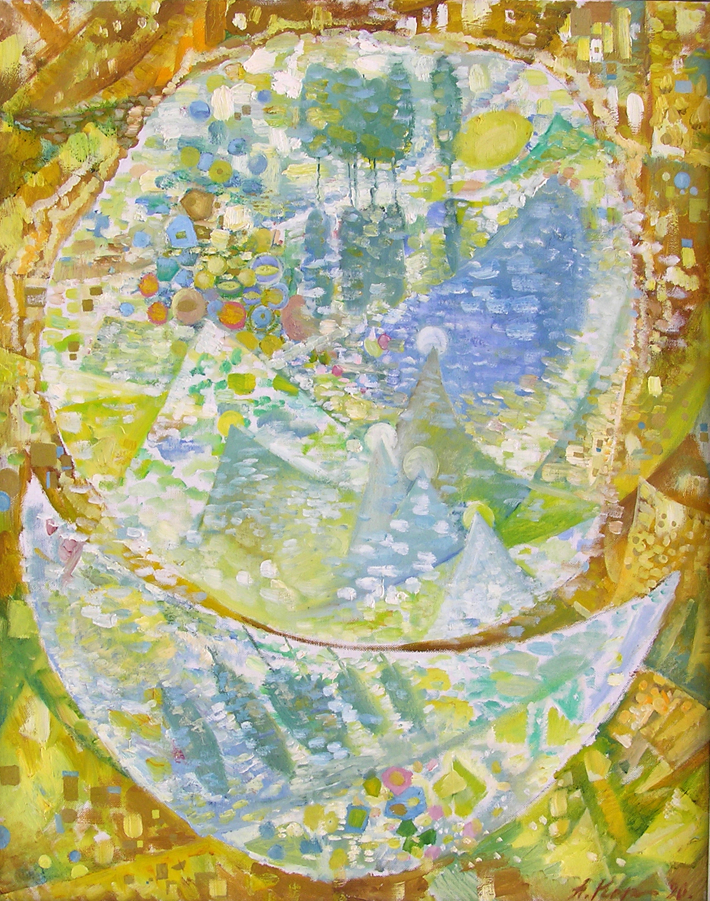 Andrey Korolchuk. Morning Transformations. Oil on canvas, 100 х 80 cm, 1990.